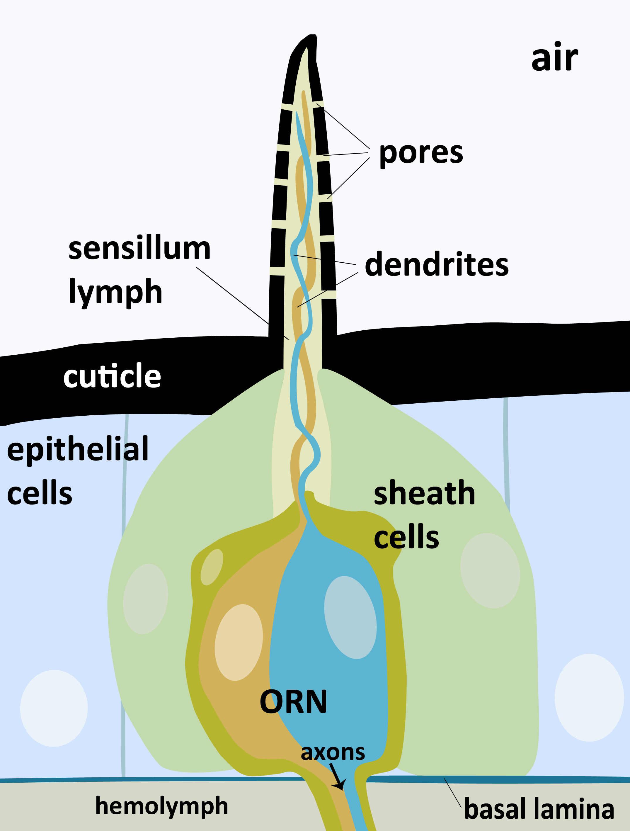 Simplified schematic of a basiconic sensillum, like it can be found for example in the fruit fly.